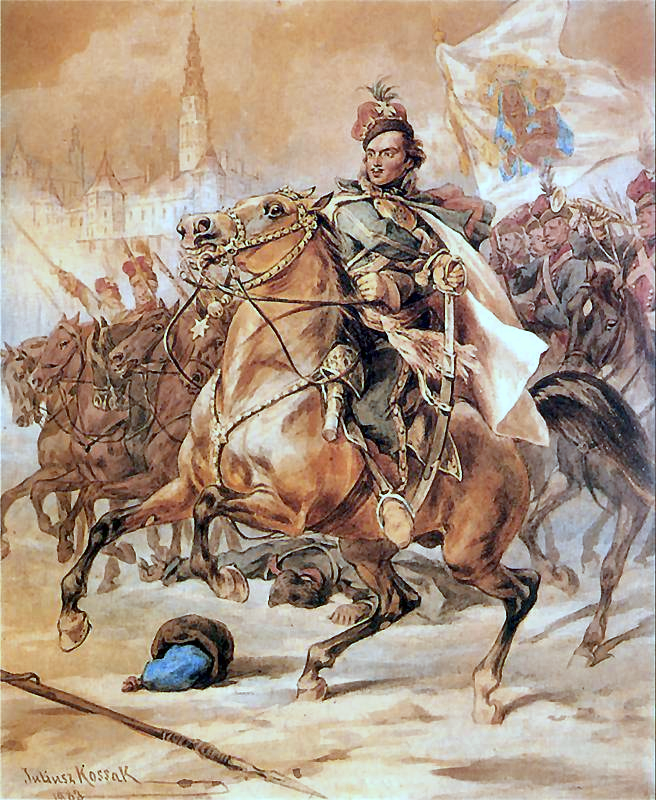 Casimir Pulaski in defense of Czestochowa by Juliusz Kossak